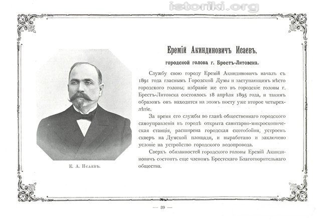 The head of the Brest-Litovsk.